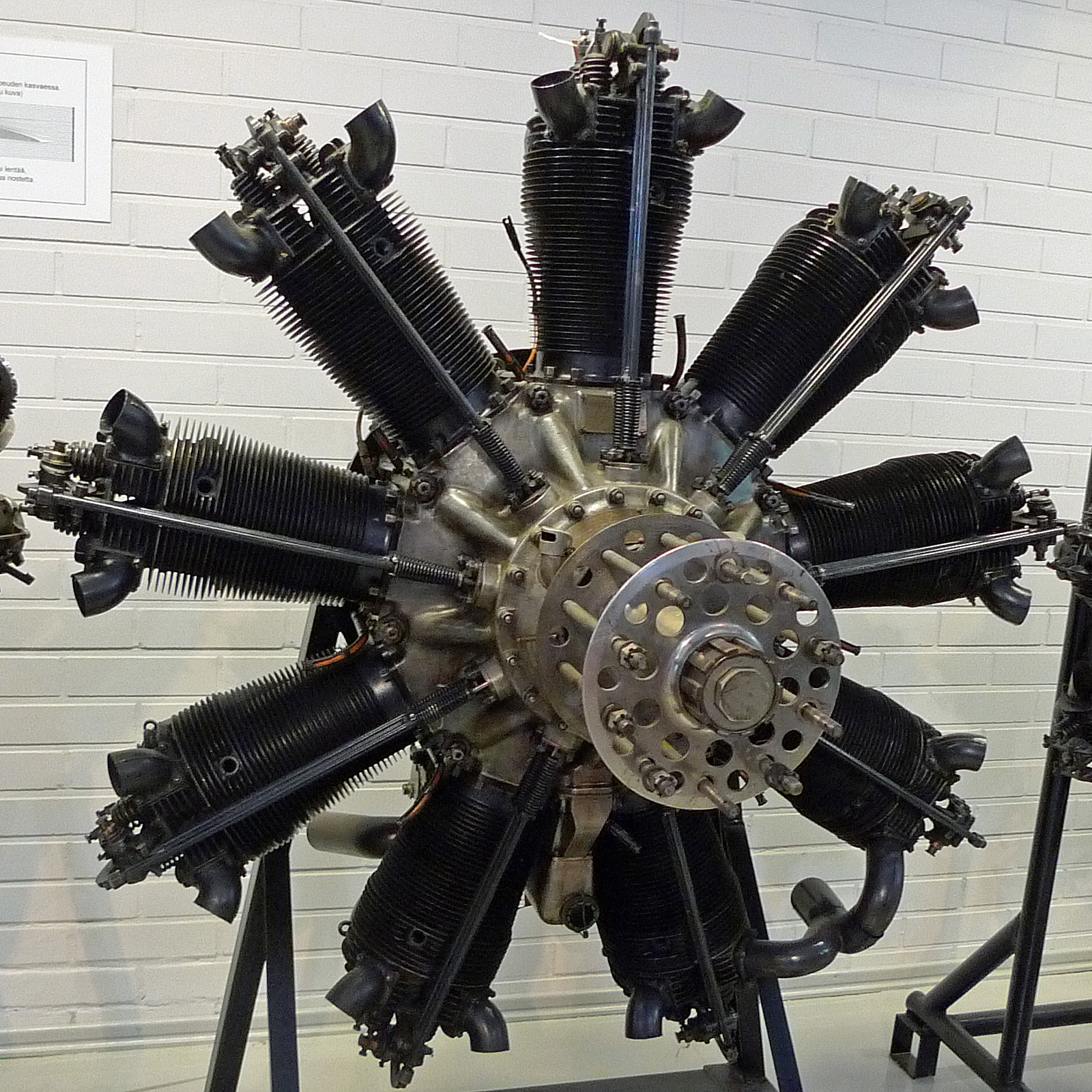 Gnome-Rhône 9Ab (Jupiter IV) piston radial engine in Central Finland Aviation Museum